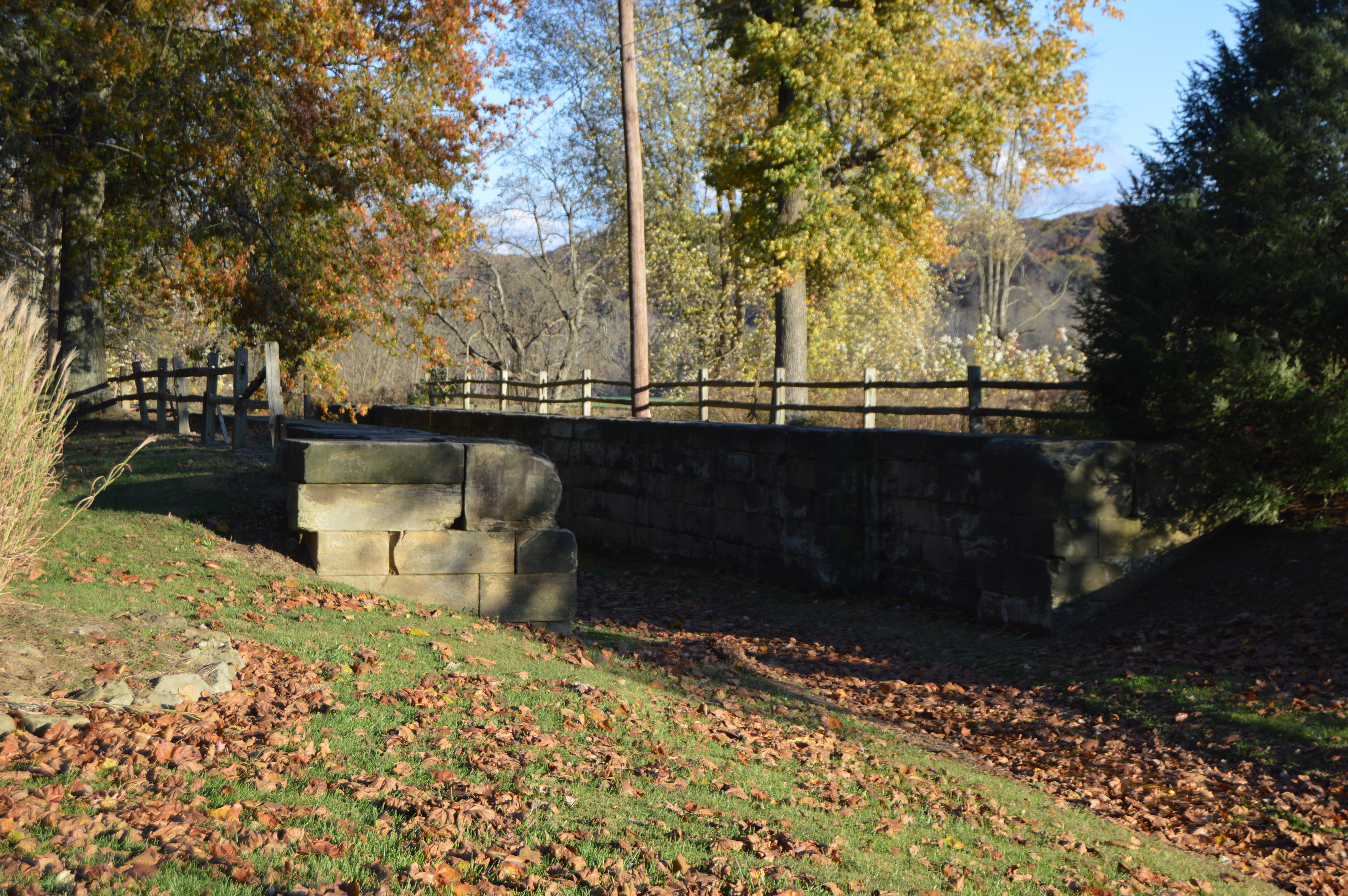 Western end of Lock #19 on the Hocking Canal, located in a park along Haydenville Road (formerly U.S. Route 33) southeast of Haydenville in Starr Township, Hocking County, Ohio, United States. It was constructed in 1841.